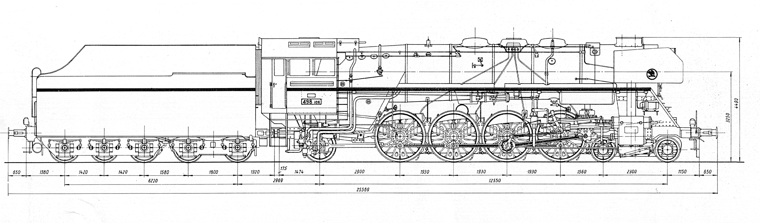 Sectional drawing of the steam locomotive number 498 106 of the Czechoslovak State Railways